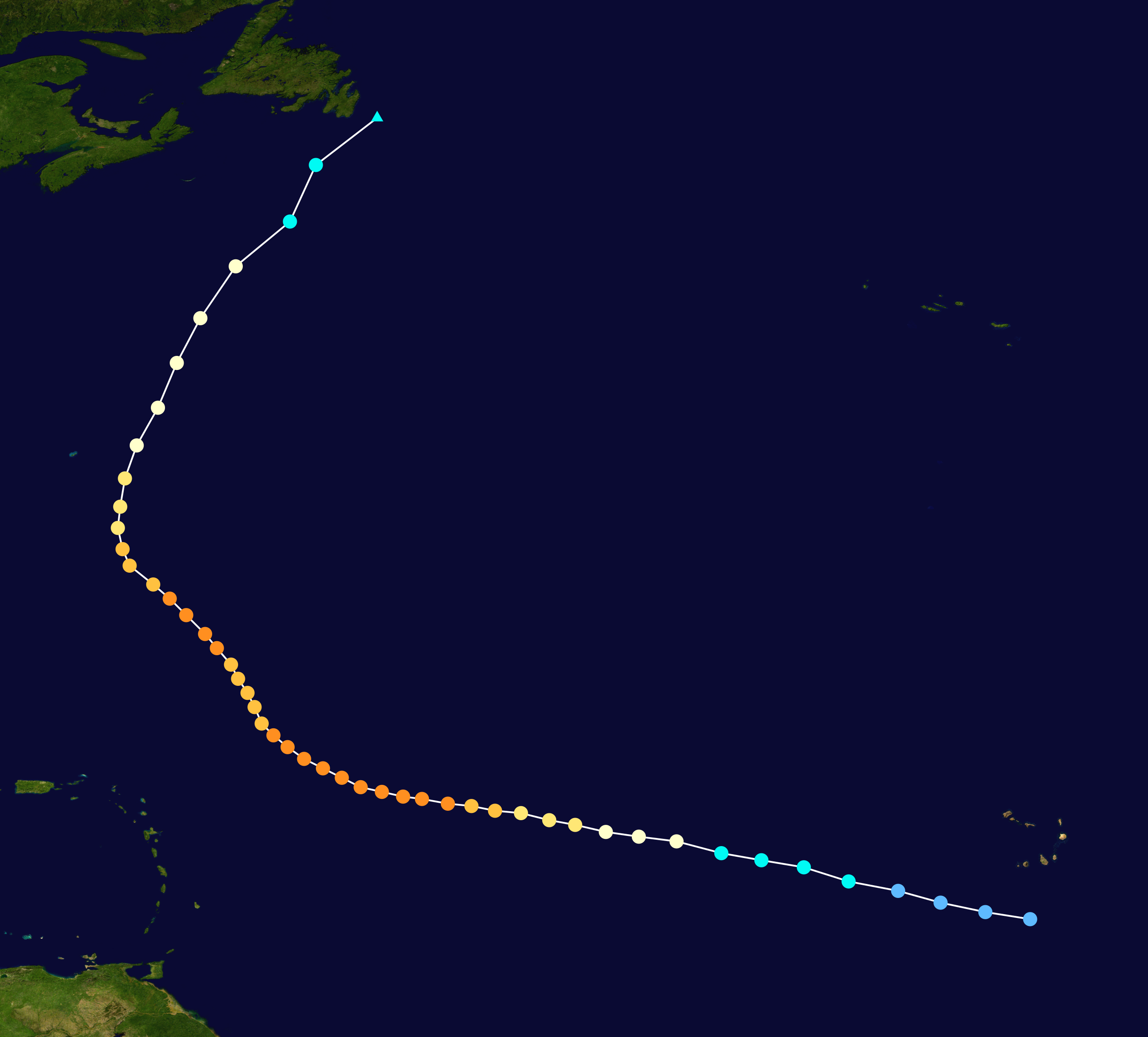 Track map of Hurricane Gert of the 1999 Atlantic hurricane season. The points show the location of the storm at 6-hour intervals. The colour represents the storm's maximum sustained wind speeds as classified in the Saffir–Simpson scale (see below), and the shape of the data points represent the nature of the storm, according to the legend below. Saffir–Simpson scale Tropical depression≤38 mph≤62 km/h Category 3111–129 mph178–208 km/h Tropical storm39–73 mph63–118 km/h Category 4130–156 mph209–251 km/h Category 174–95 mph119–153 km/h Category 5≥157 mph≥252 km/h Category 296–110 mph154–177 km/h Unknown Storm type Tropical cyclone Subtropical cyclone Extratropical cyclone / Remnant low / Tropical disturbance / Monsoon depression